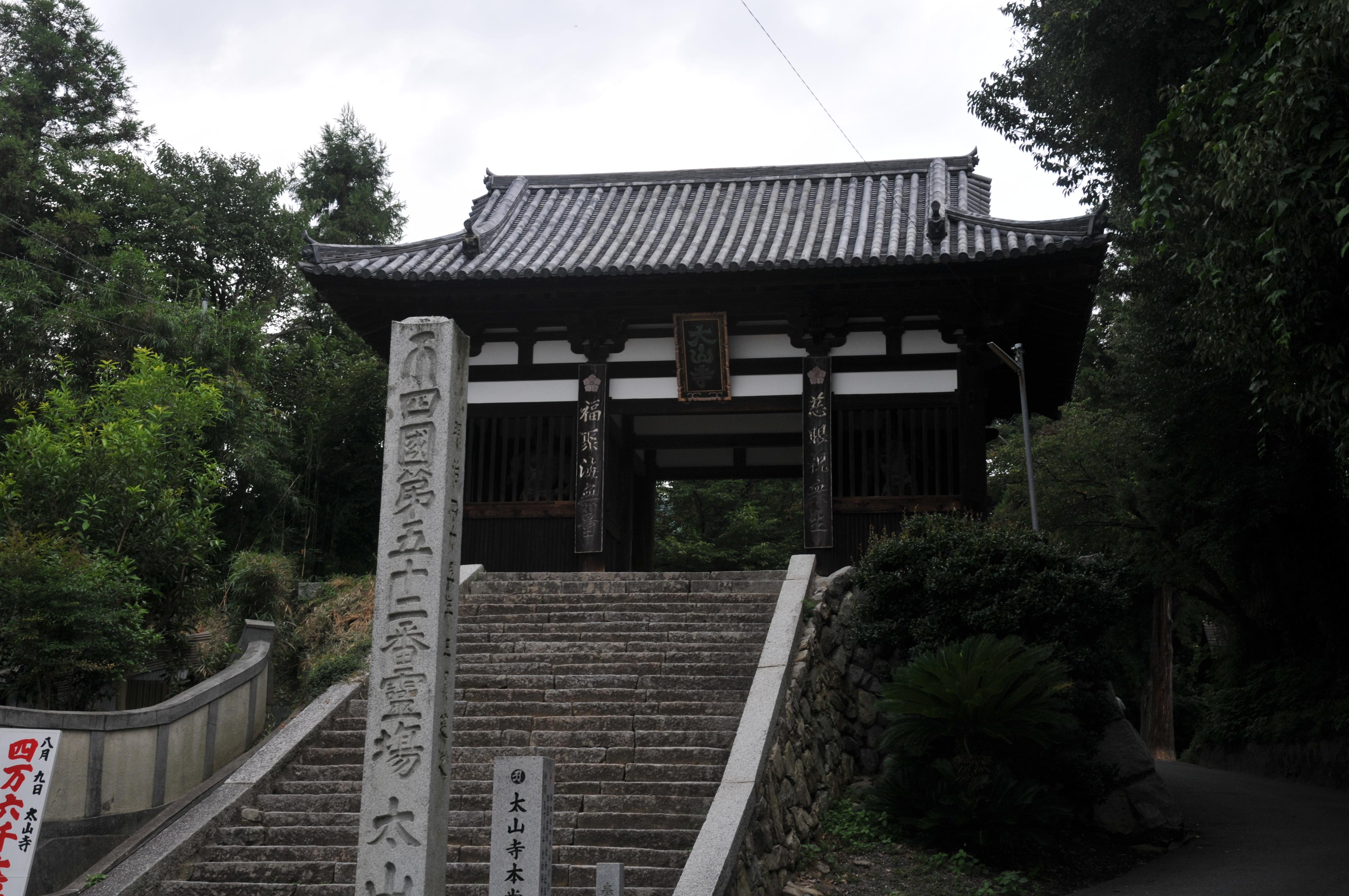 Ni-no-mon gate (The second gate, Japan's national important cultural property), Taisan-ji temple, Ehime Pref., Japan